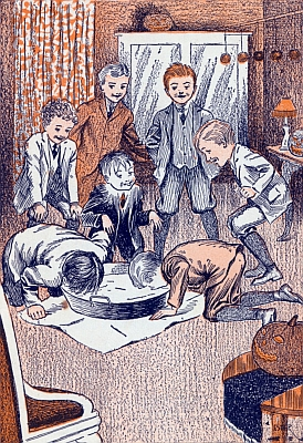 Illustration from children;s novel, Hallowe'en at Merryvale by Alice Hale Burnett. Caption:"Three cheers for Hopie!" shouted all the boys.